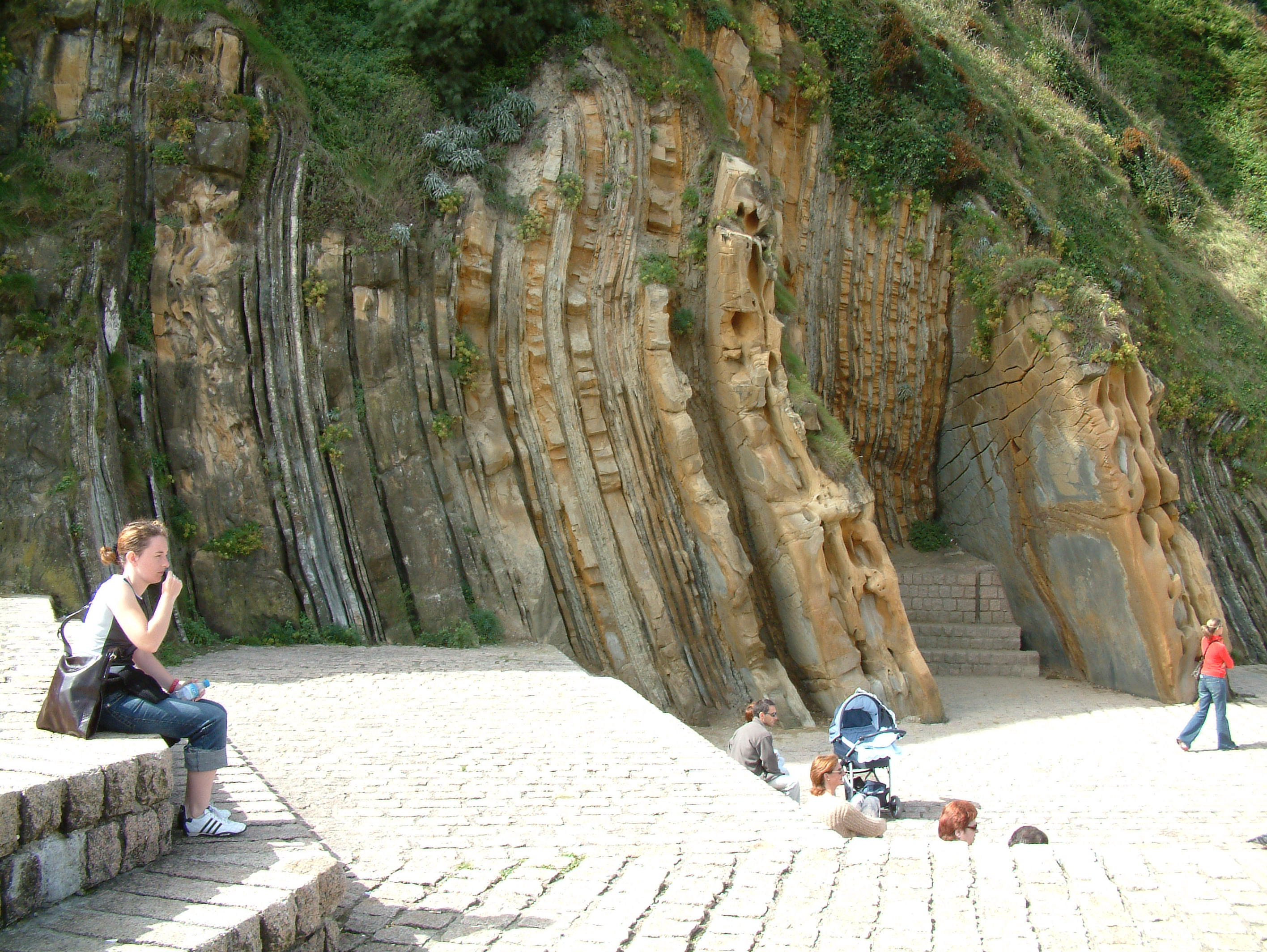 End of cobbles: Somewhere near this place is the spot in San Sebastian where Hemingway's Jake Barnes swam in "The Sun Also Rises."